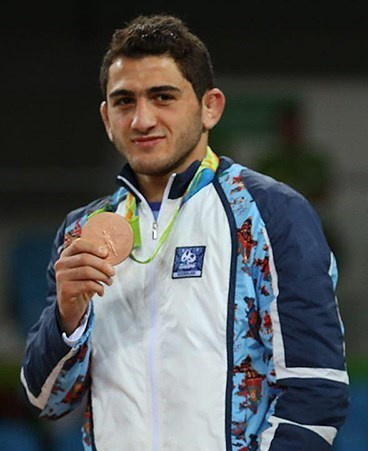 Bronze medalist Haji Aliyev at the 2016 Summer Olympics, Men's Freestyle Wrestling 57 kg.